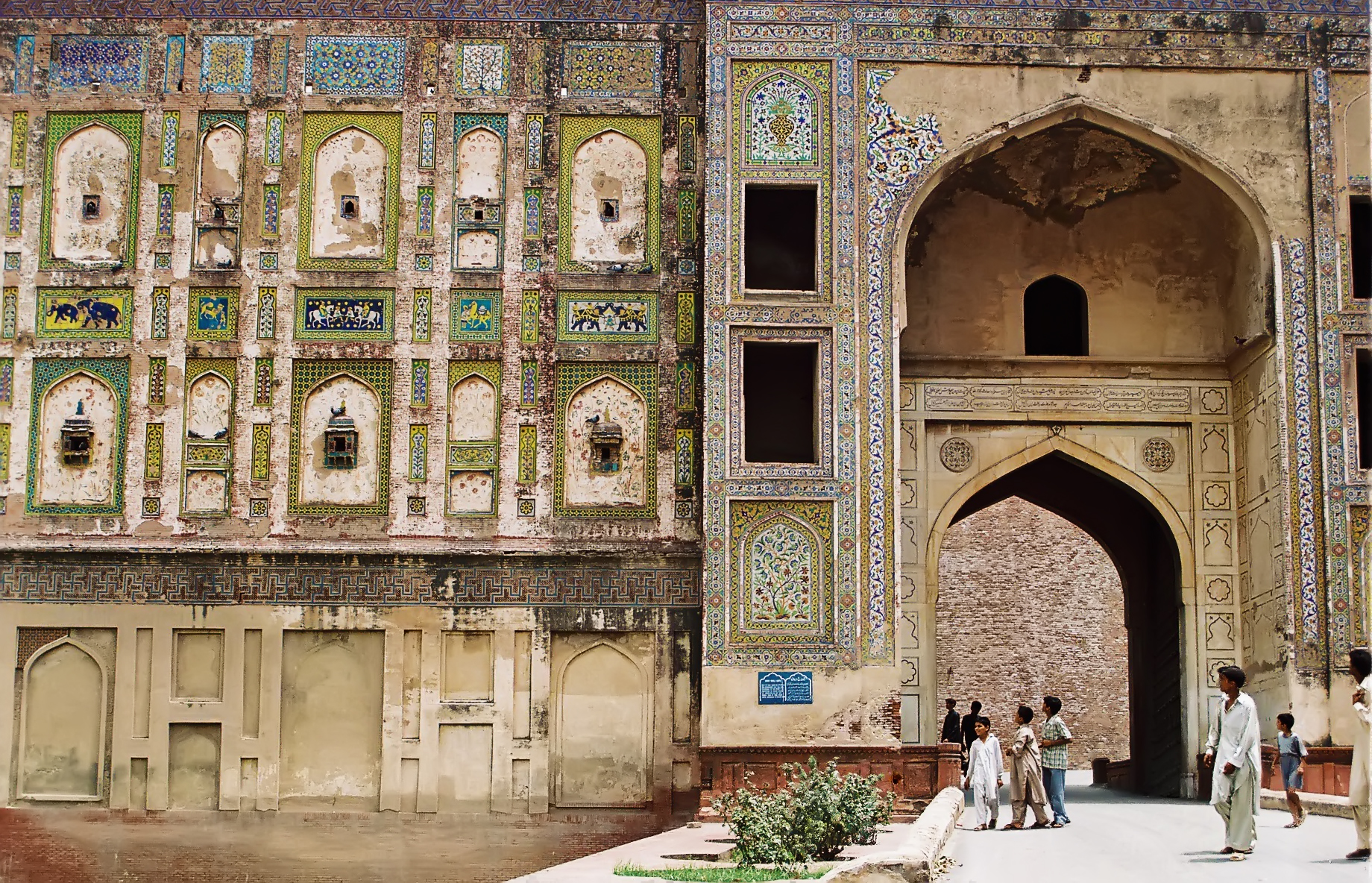 Lahore Fort complex (including Moti Masjid, Naulakha Pavilion, Sheesh Mahal and others) This is a photo of a monument in Pakistan identified as the PB-67